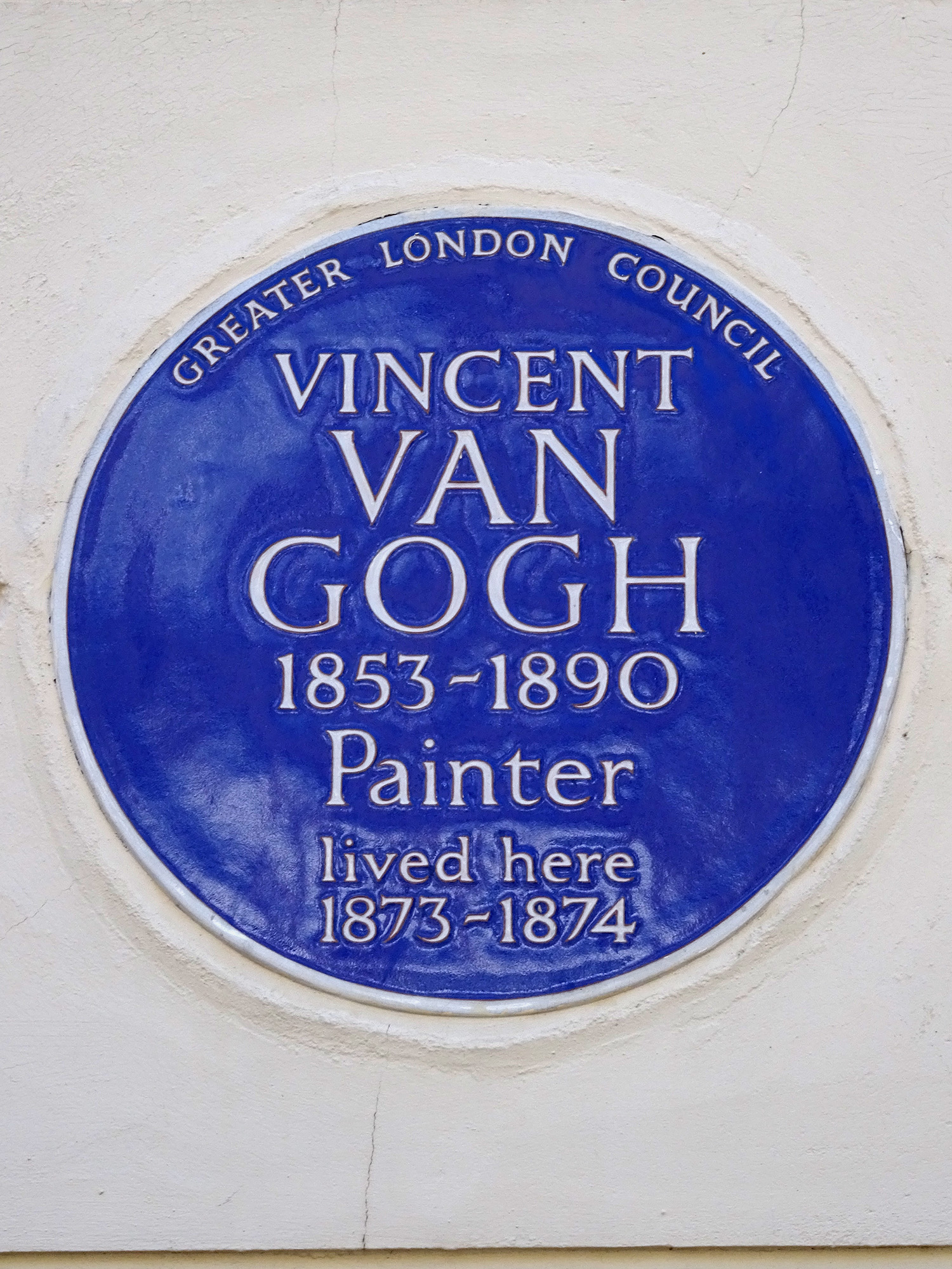 Blue plaque erected in 1973 by Greater London Council at 87 Hackford Road, South Lambeth, London SW9 0RE, London Borough of Lambeth